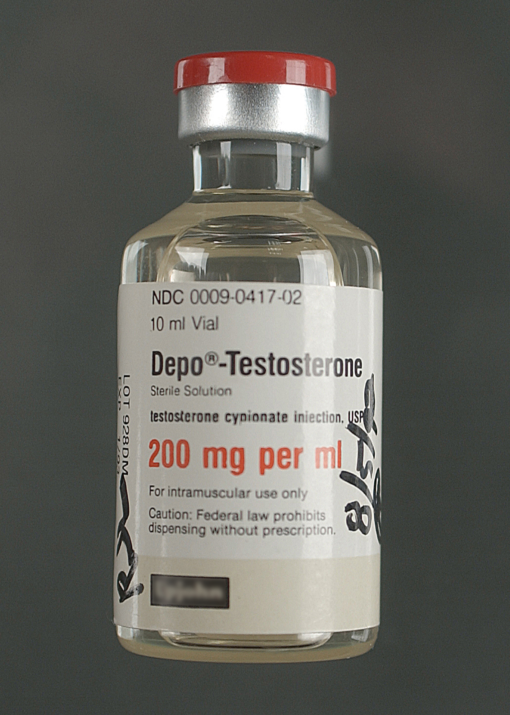 A 10 ml vial of Depo-Testosterone (testosterone cypionate), an anabolic steroid.